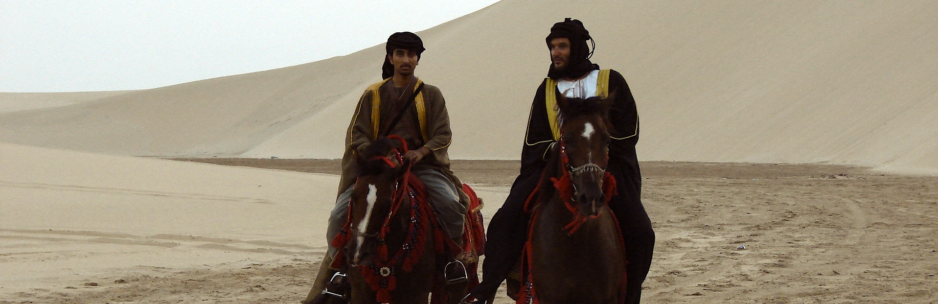 Riders during reconstitution Scene on Sealine Qatar